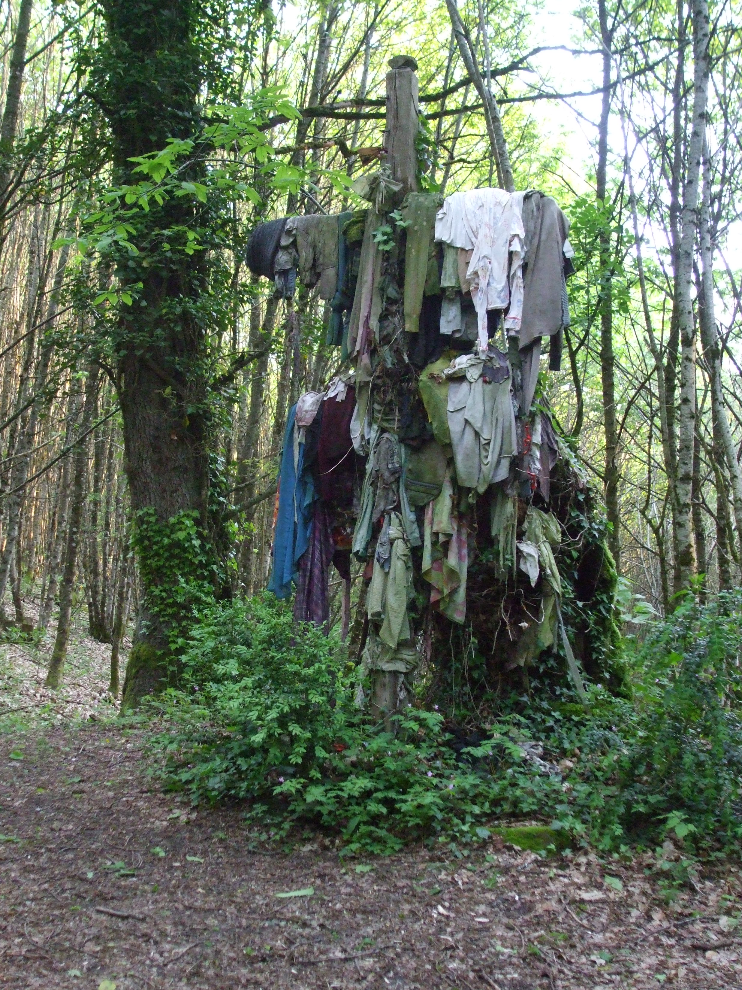 Wayside cross of devotion, fontain of devotion of Courbefy, Bussière-Galant (Haute-Vienne, France)